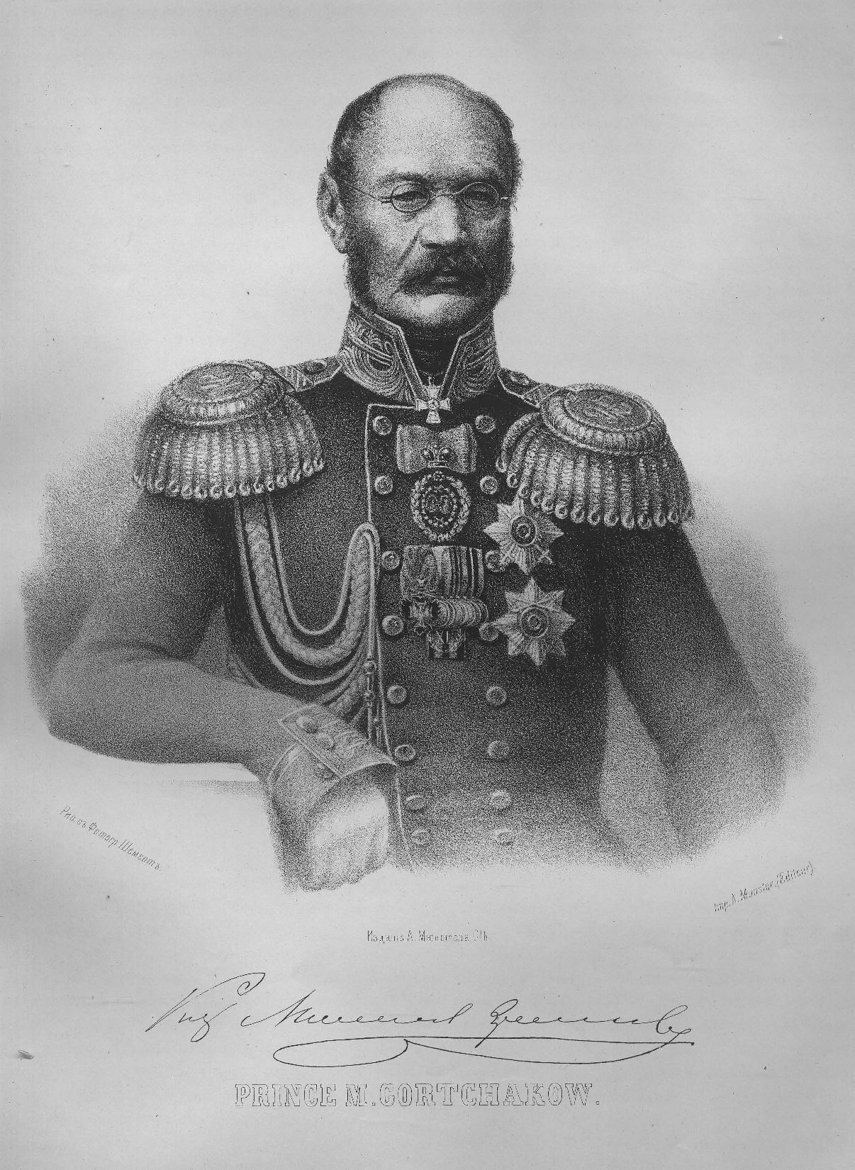 Mikhayl Dmitrievich Gorchakov